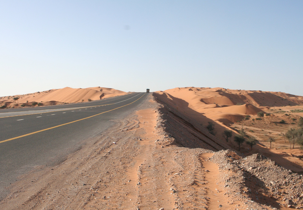 Road from E311 to E11 at km 119.